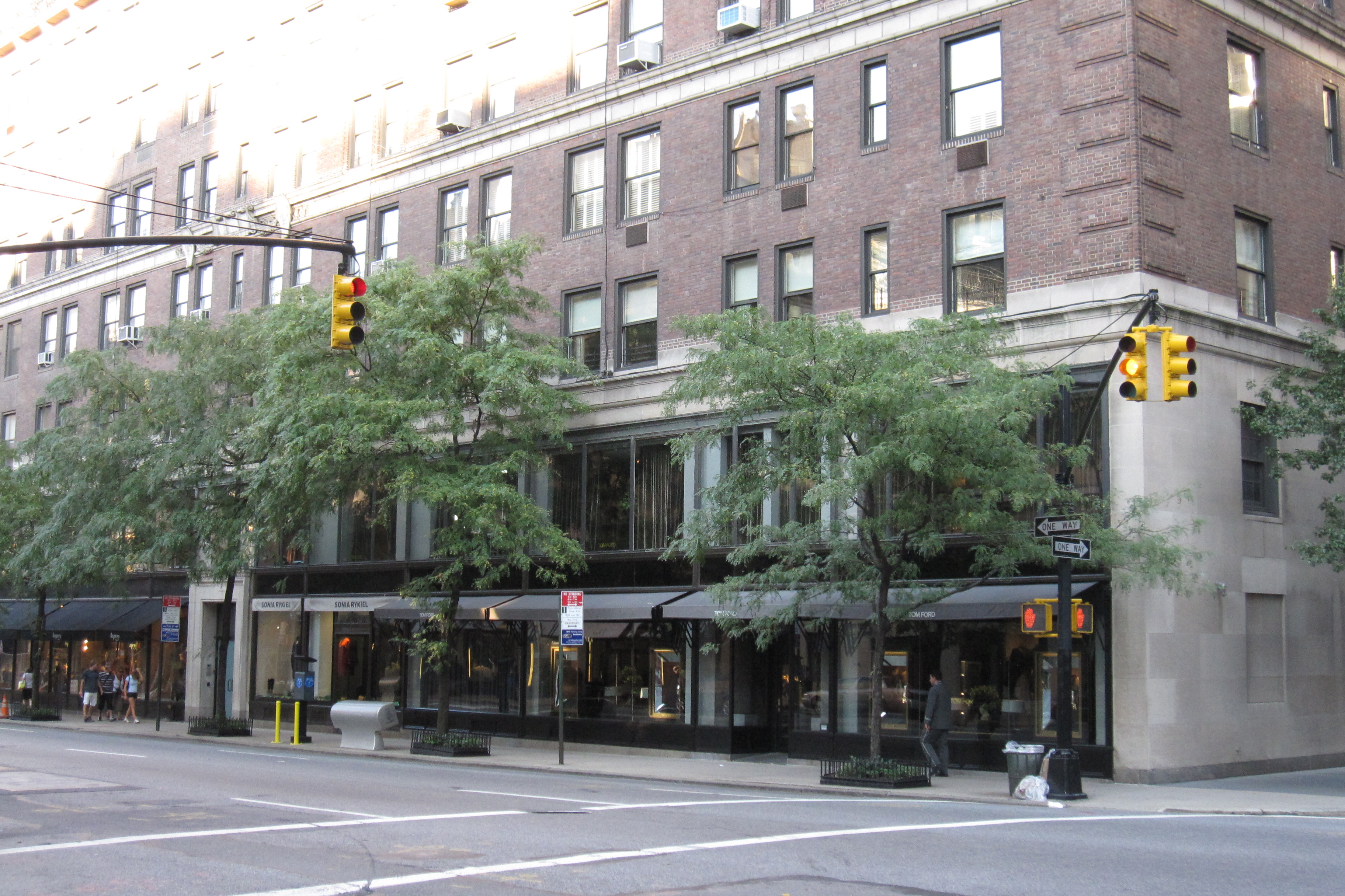 Tom Ford boutique on Madison Avenue in New York City.